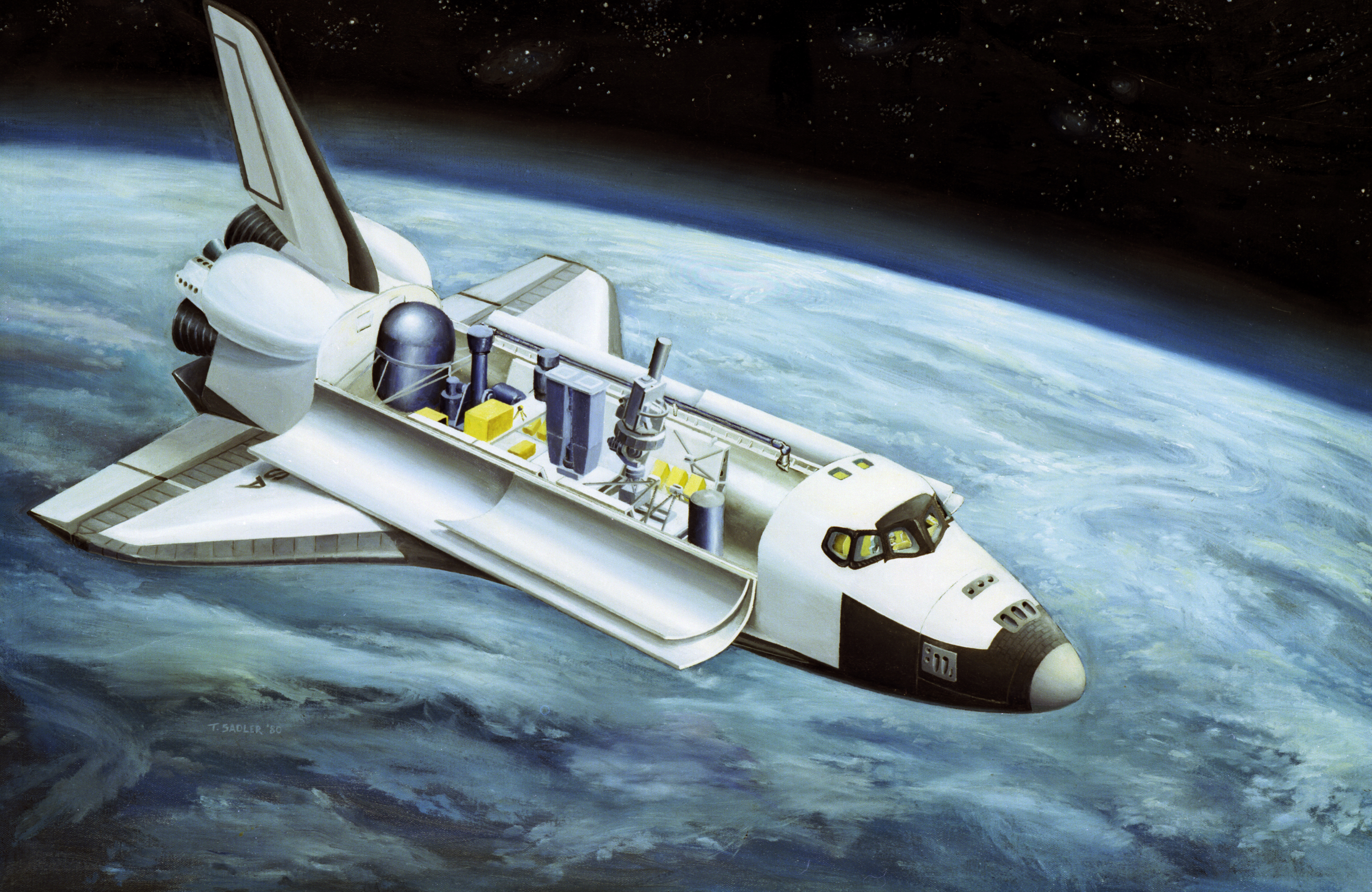 Full Description: This illustration depicts the configuration of the Spacelab-2 in the cargo bay of the orbiter. Spacelab was a versatile laboratory carried in the Space Shuttle's cargo bay for scientific research flights. Each Spacelab mission had a unique design appropriate to the mission's goals. A number of Spacelab configurations could be assembled from pressurized habitation modules and exposed platforms called pallets. Spacelab-2 was the first pallet-only mission. One of the goals of the mission was to verify that the pallets' configuration was satisfactory for observations and research. Except for two biological experiments and an experiment that used ground-based instruments, the Spacelab-2 scientific instruments needed direct exposure to space. On the first pallet, three solar instruments and one atmospheric instrument were mounted on the Instrument Pointing System, which was being tested on its first flight. The second Spacelab pallet held a large double x-ray telescope and three plasma physics detectors. The last pallet supported an infrared telescope, a superfluid helium technology experiment, and a small plasma diagnostics satellite. The Spacelab-2 mission was designed to capitalize on the Shuttle-Spacelab capabilities, to launch and retrieve satellites, and to point several instruments independently with accuracy and stability. Spacelab-2 (STS-51F, 19th Shuttle mission) was launched aboard Space Shuttle Orbiter Challenger on July 29, 1985. The Marshall Space Flight Center had overall management responsibilities of the Spacelab missions.